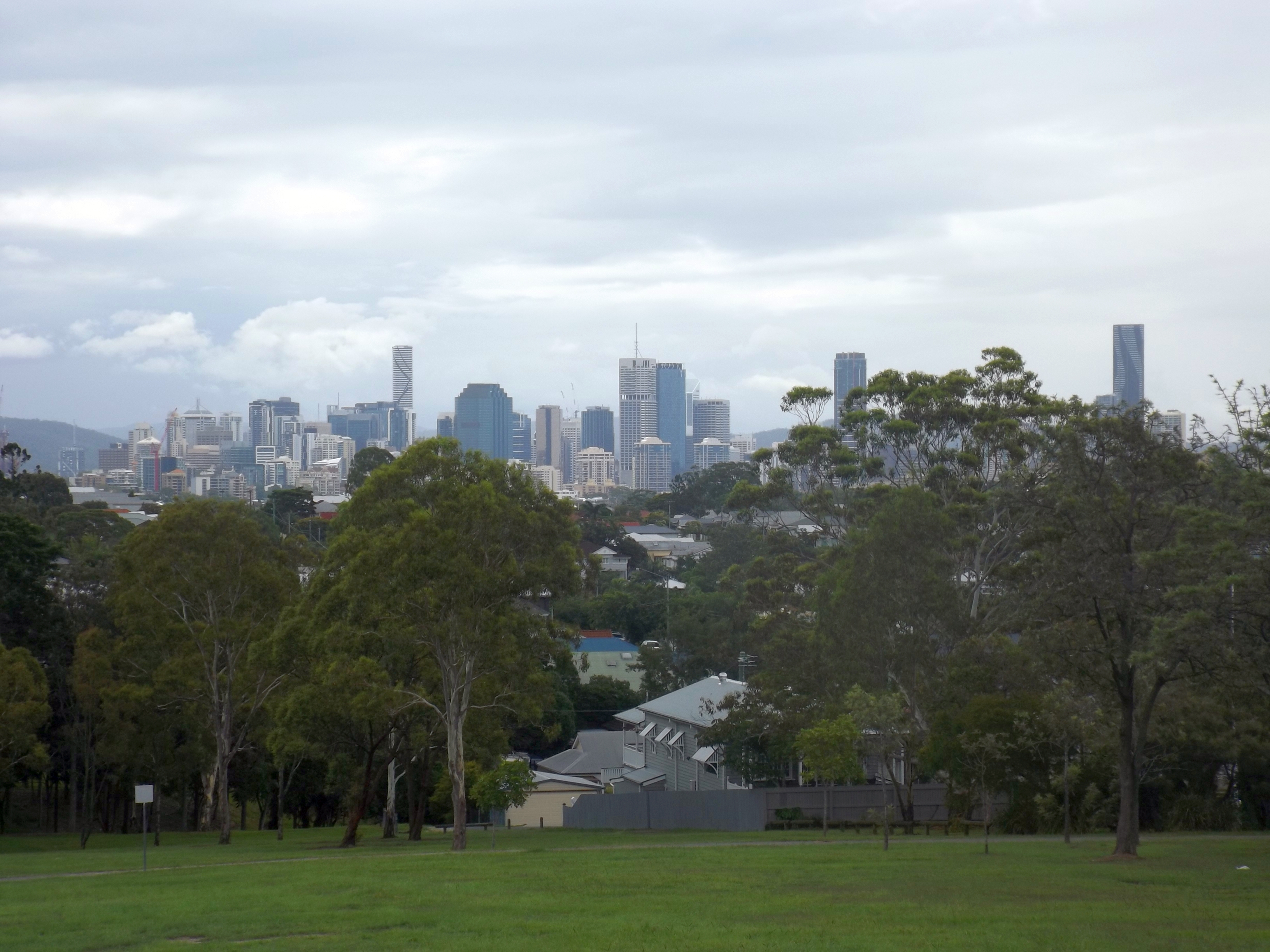 Photo of the Brisbane central business district seen from Norman Park at Norman Park, Brisbane, Queensland, Australia.